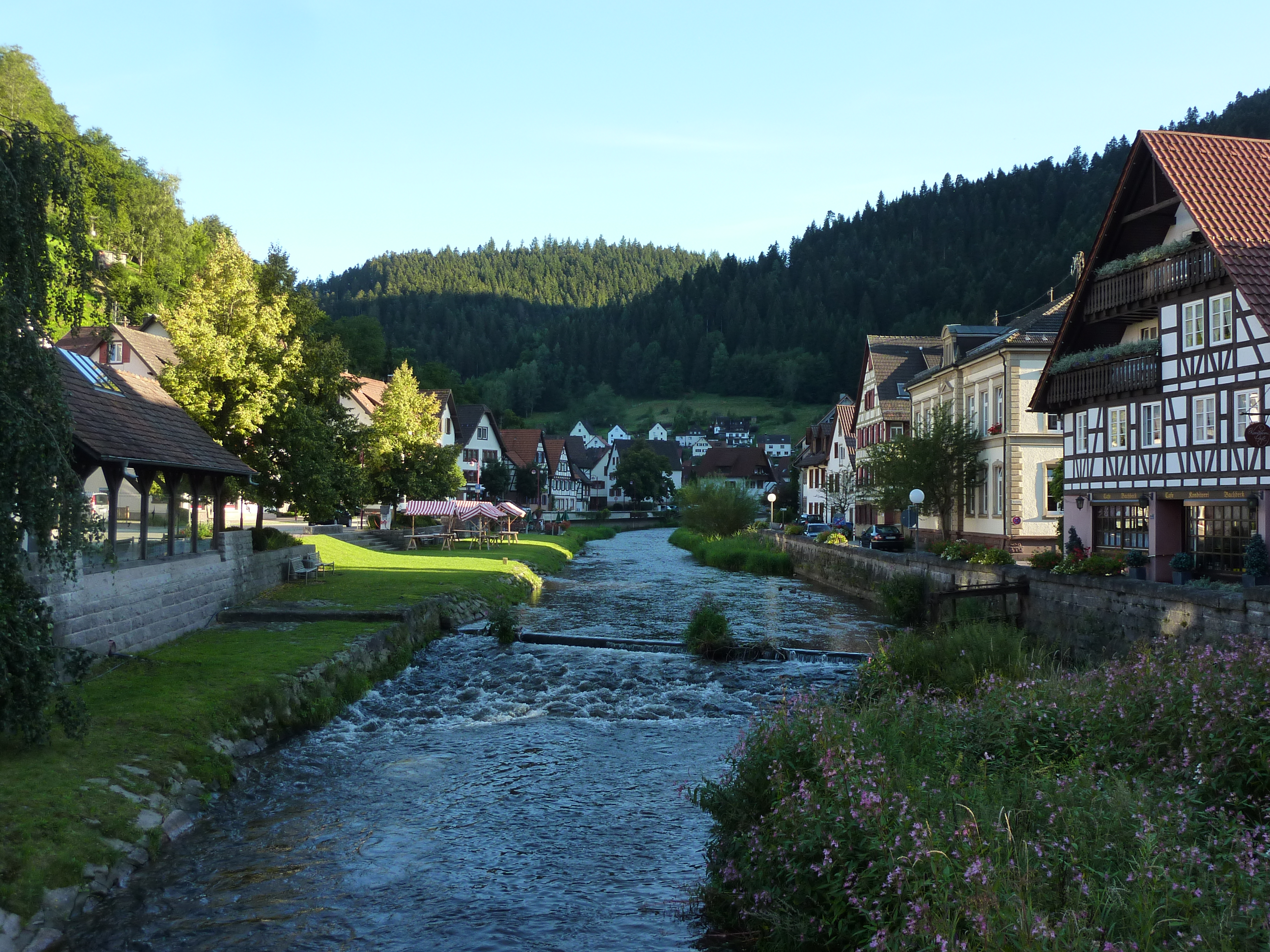 The Schiltach River in Schiltach, Black Forest, Germany